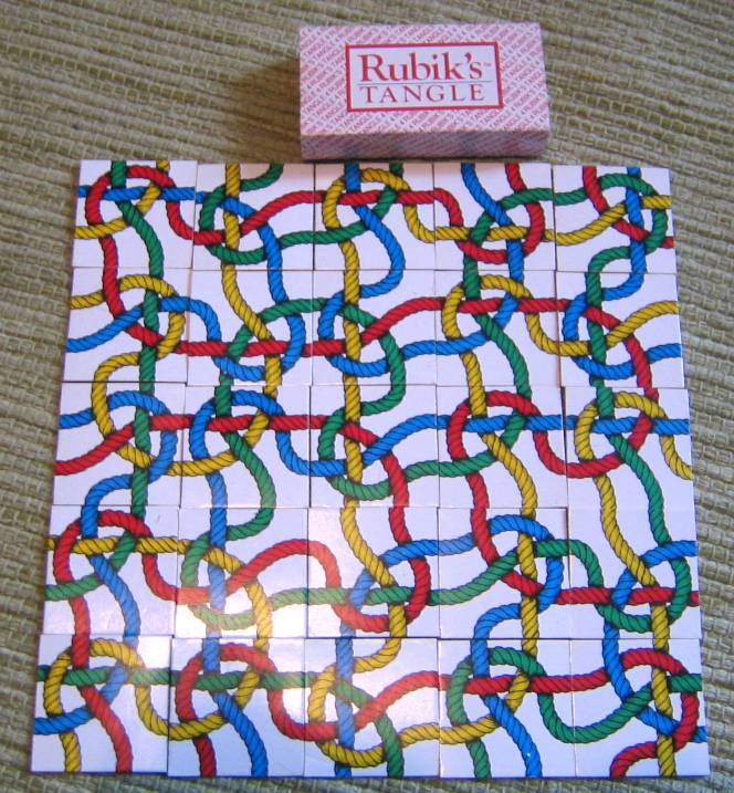 Solution of Rubiks Tangle Puzzle